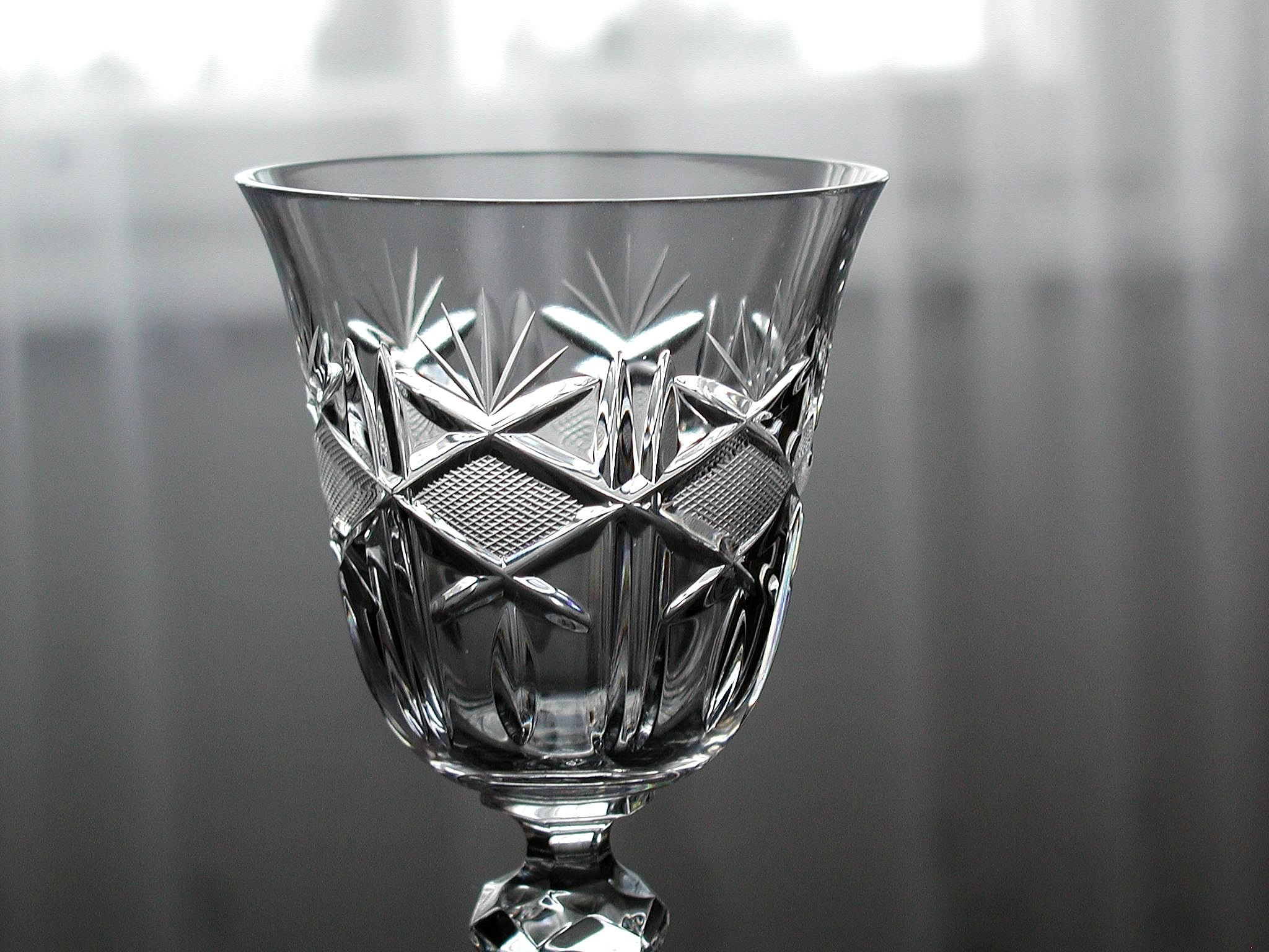 Lead glass